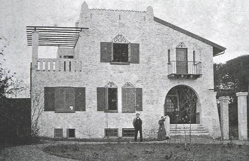 Siegfried and Olga Wagner's former home and studio Løveborg on Lottenborgvej in Lyngby, Denmark